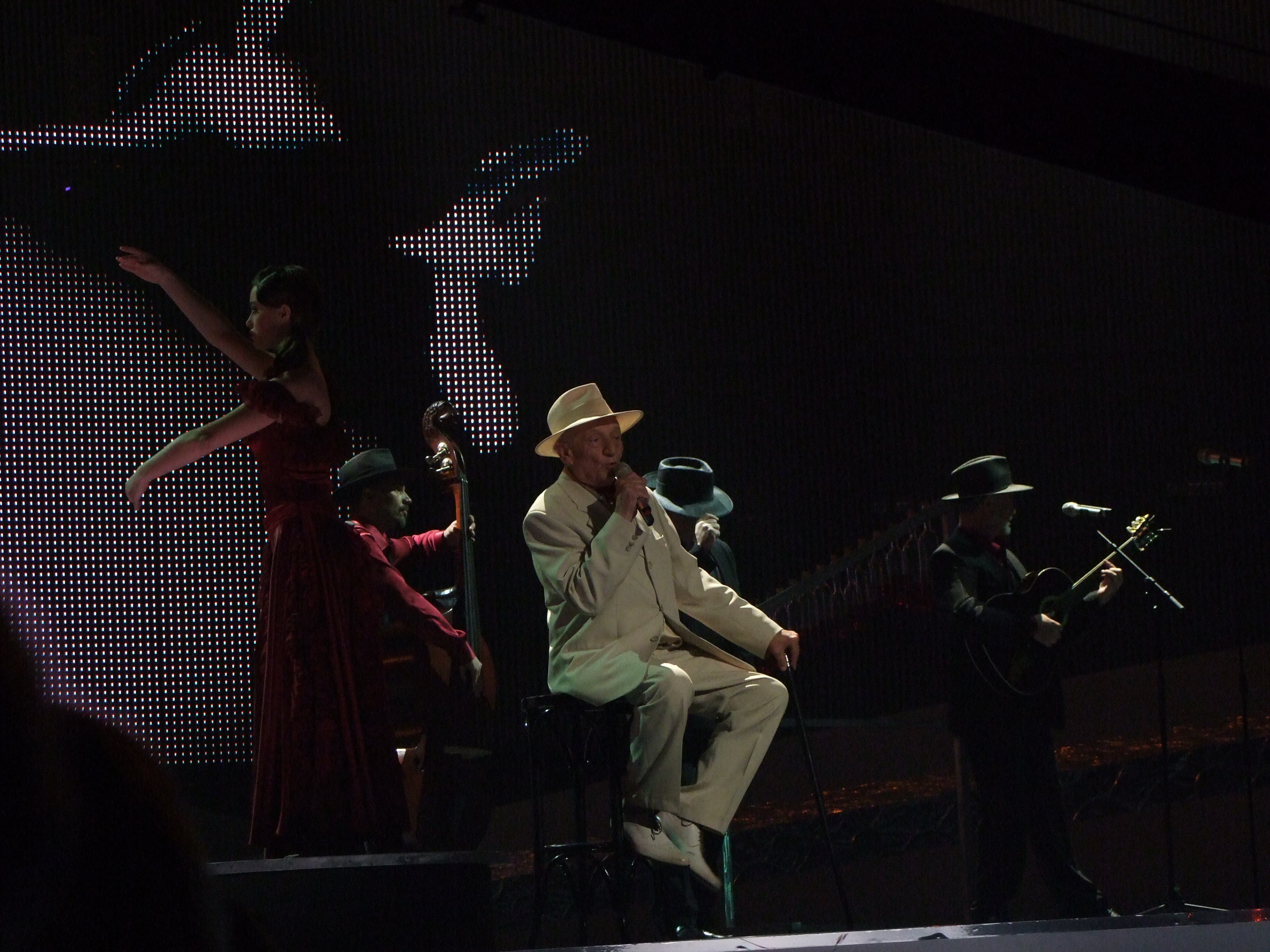 Kraljevi Ulice & 75 Cents in the 2nd semi-final at the Eurovision Song Contest in Belgrade, Serbia, May 22, 2008.